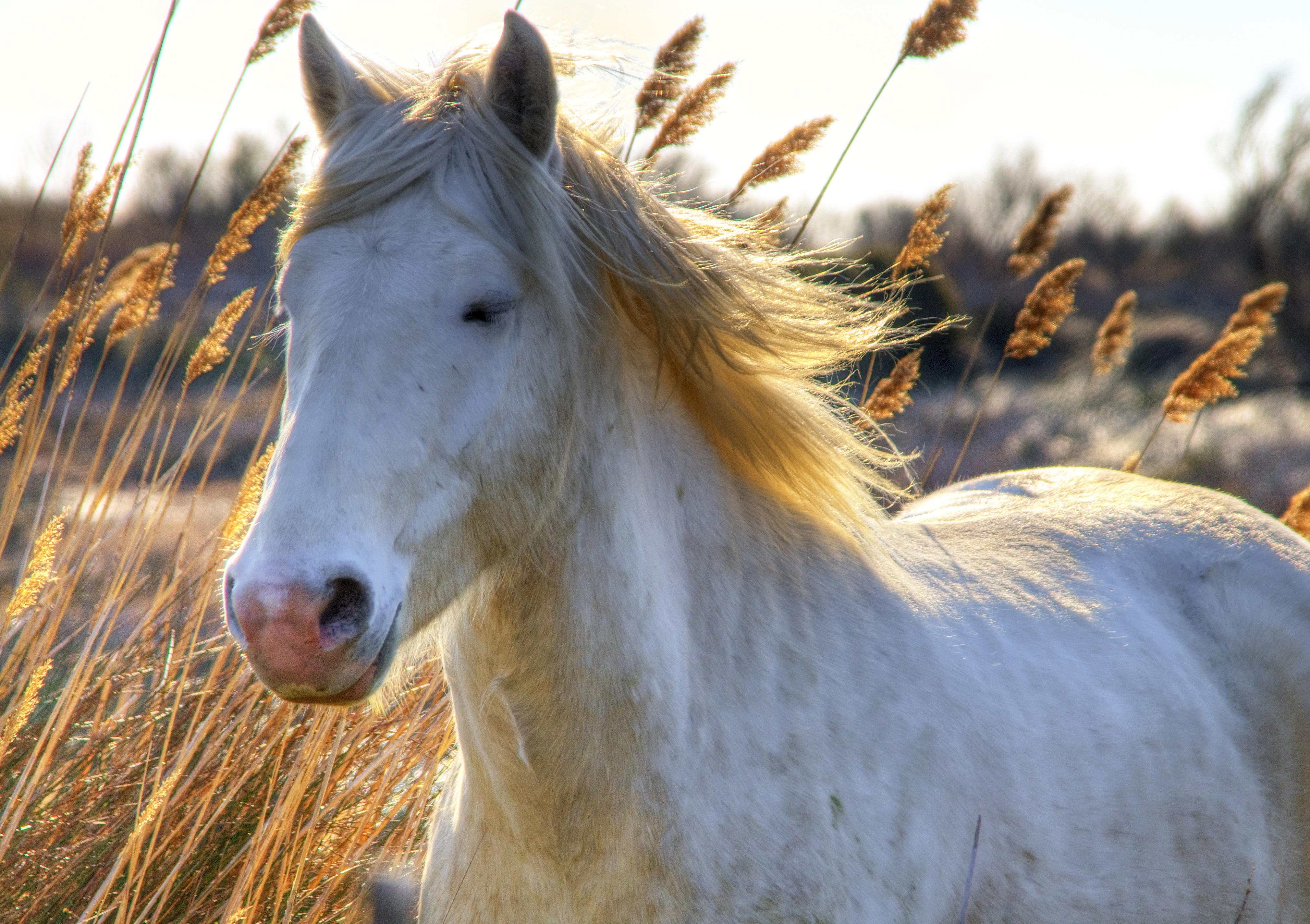 A Camargue horse